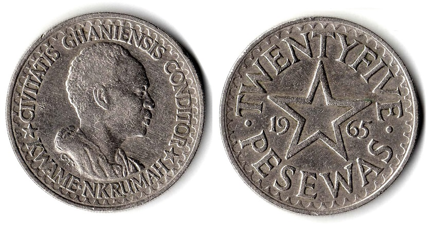 25 pesewas. The 1965 Cedi